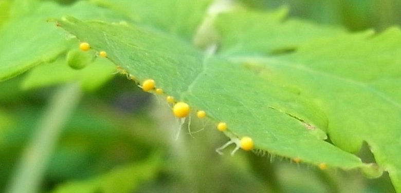 Poison sap of teared leaf of greater celandine. Chelidonium majus, var. asiaticum. At the Katahira Campus of Tōhoku University. Katahira 2 chōme, Aoba ward, Sendai, Miyagi prefecture, Japan.